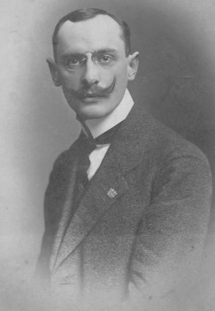 Portrait of the polish inventor Adolf Froelich. He was photographed during a stay in Freising (decembre 1912). Afterwards he had sent this photo to his family.